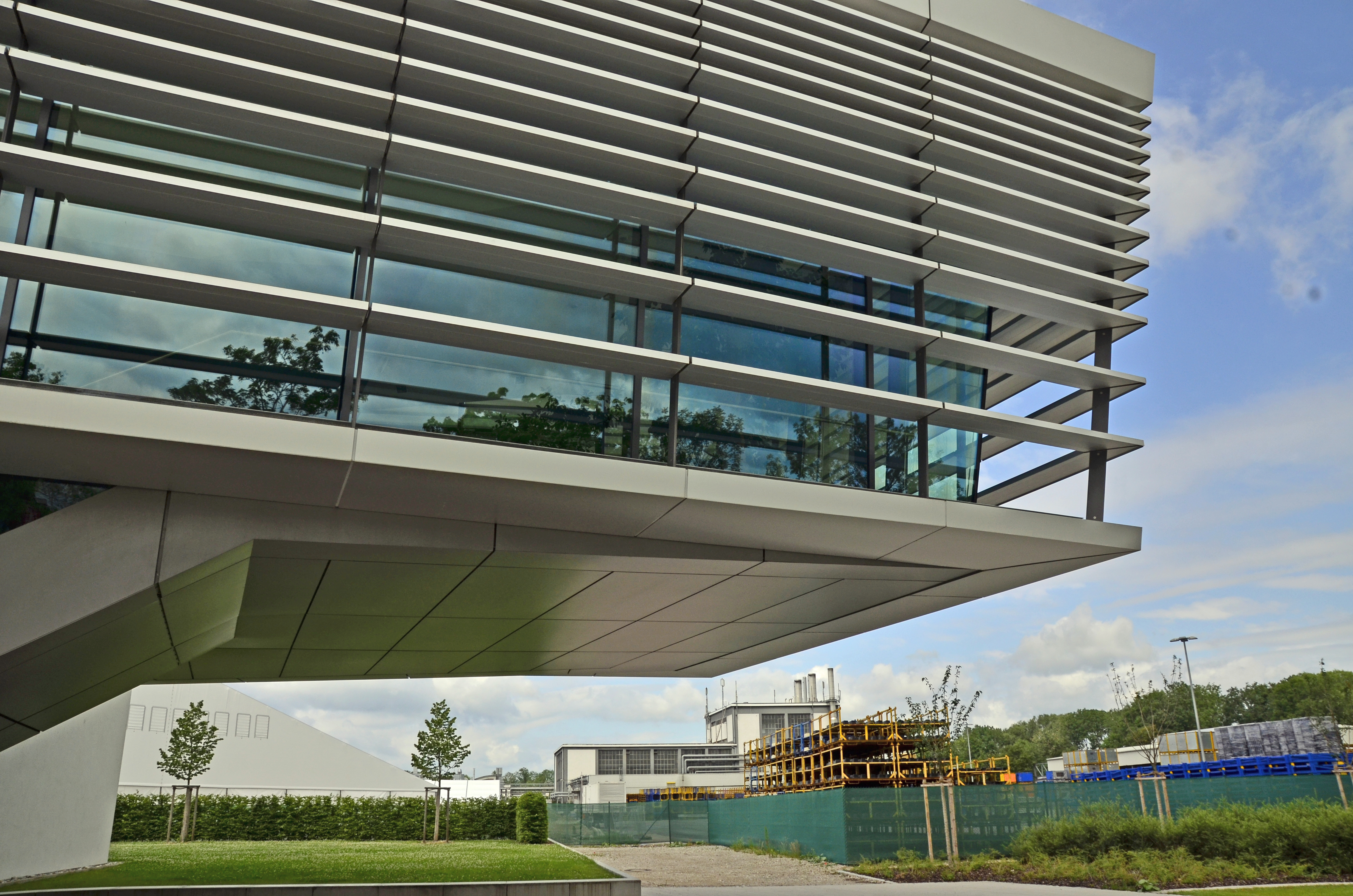 MAN Factory Headquarter Building